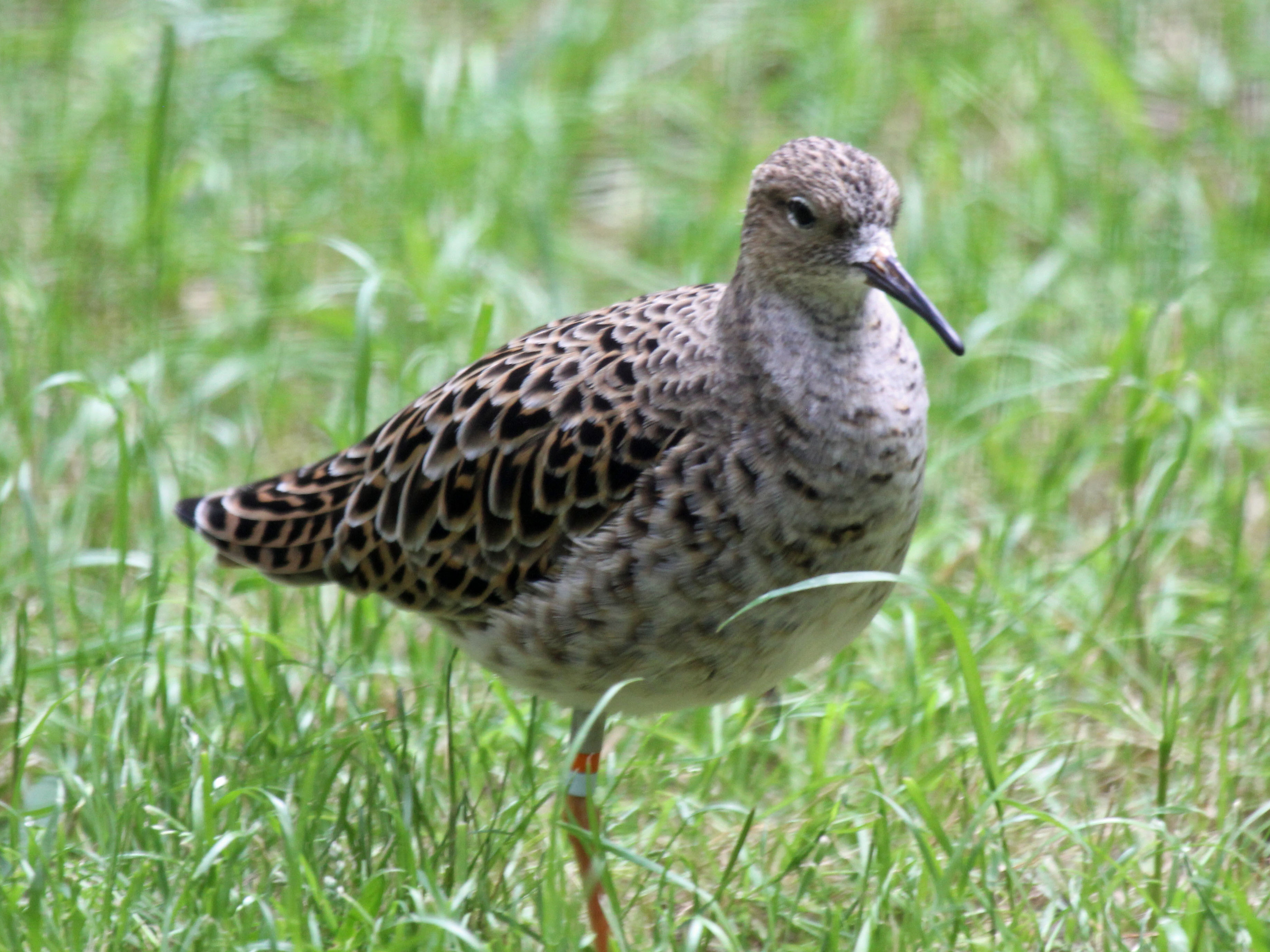 Female Ruff (Philomachus pugnax) - Sylvan Heights Waterfowl Park, Scotland Neck, North Carolina